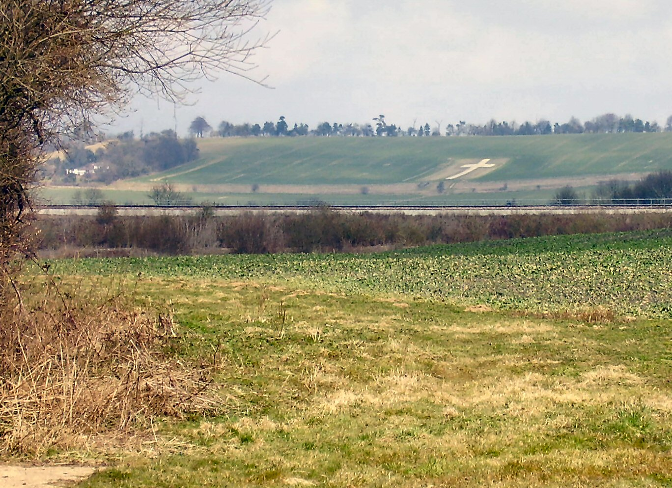 C. Hoyle